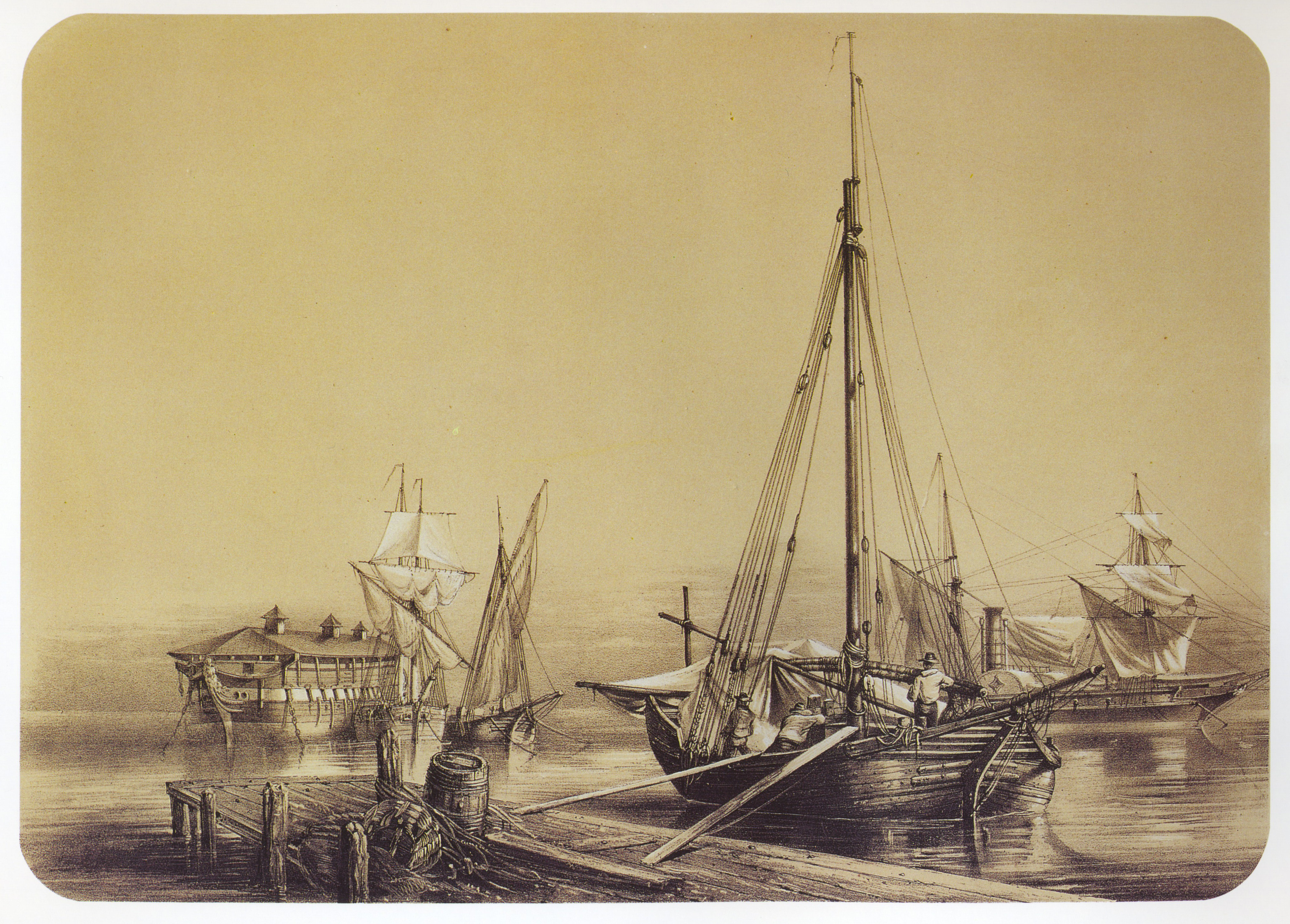 Tartane in Toulon. A hulk can be seen in the background.